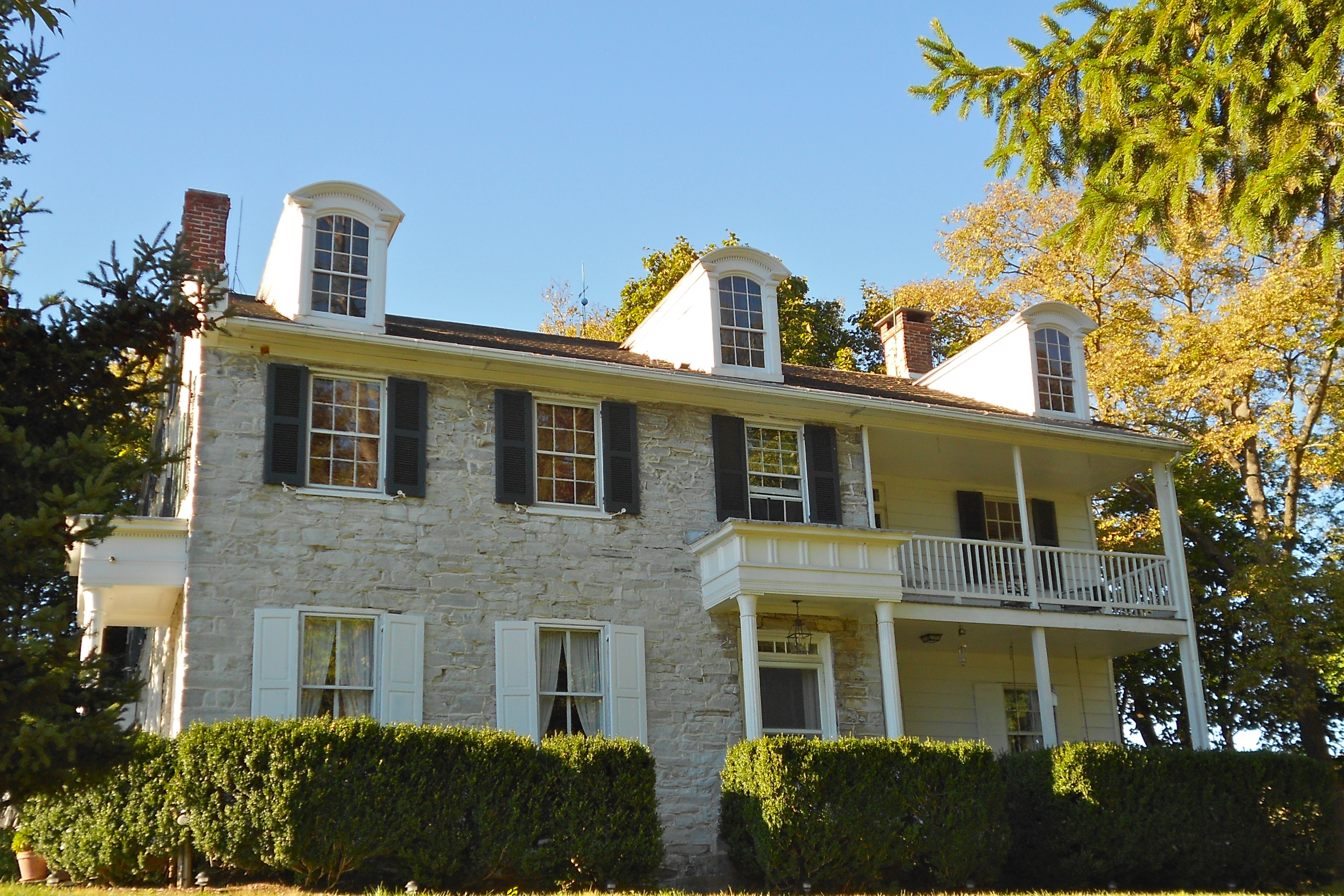 Ashton-Hursh House listed on the NRHP on November 15, 2003. At 204 Limekiln Road, south of New Cumberland, Fairview Township, York county, Pennsylvania